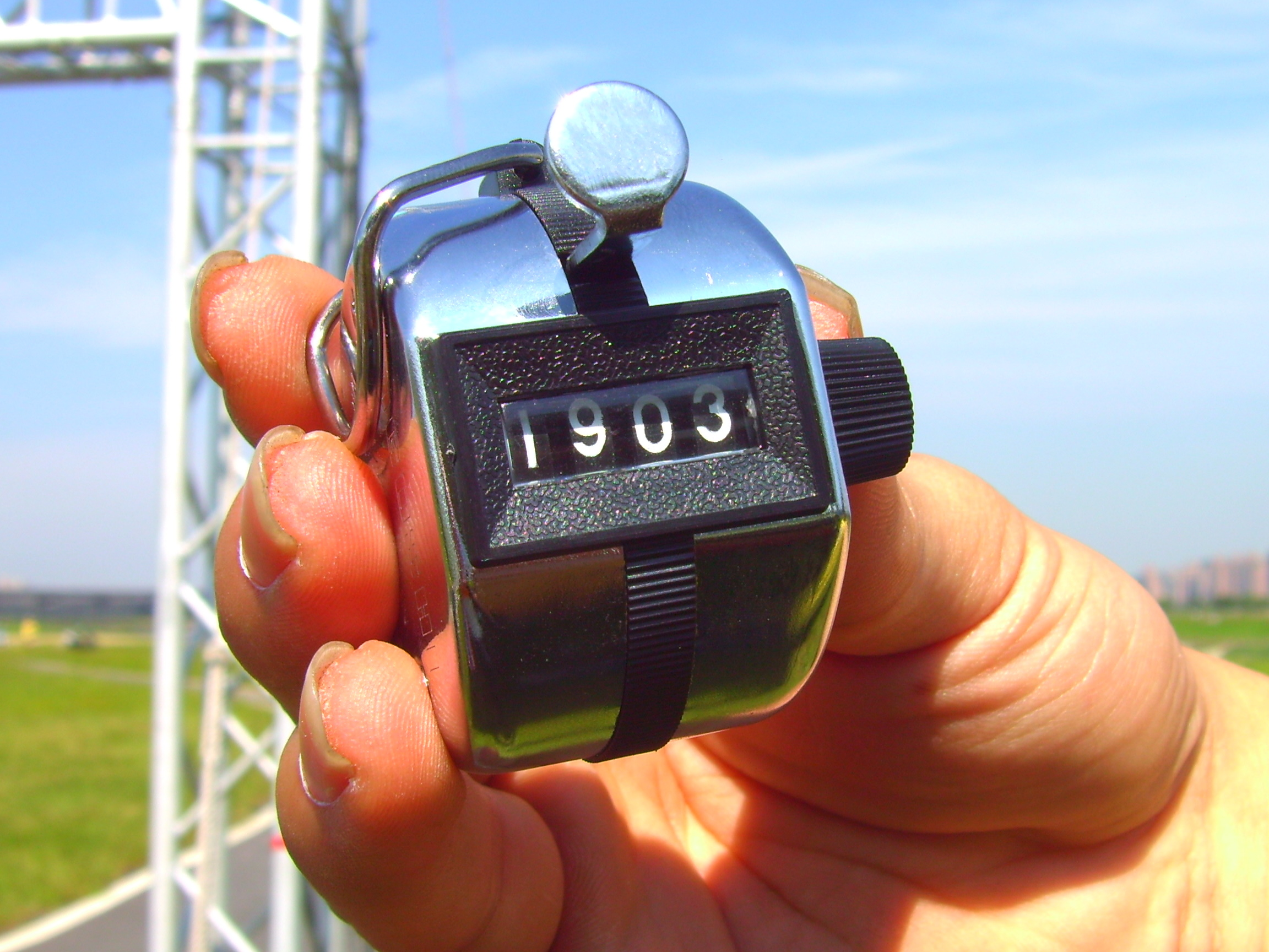 "2007 Ten Thousand People for BIKE" Guinness World Record Challenge, a manual counter counted 1903 riders with a little bit difference with electronic counter which counted 1901 riders.